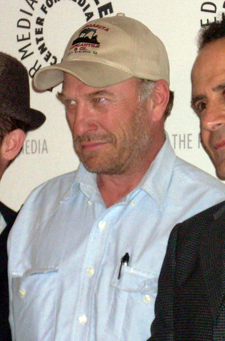 "Monk: 100 Episodes and Counting..." - Paley Center for Media, Dec. 2, 2008